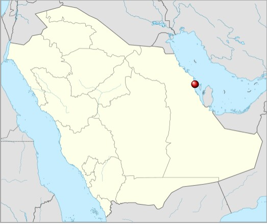 साउदी अरबको नक्शा